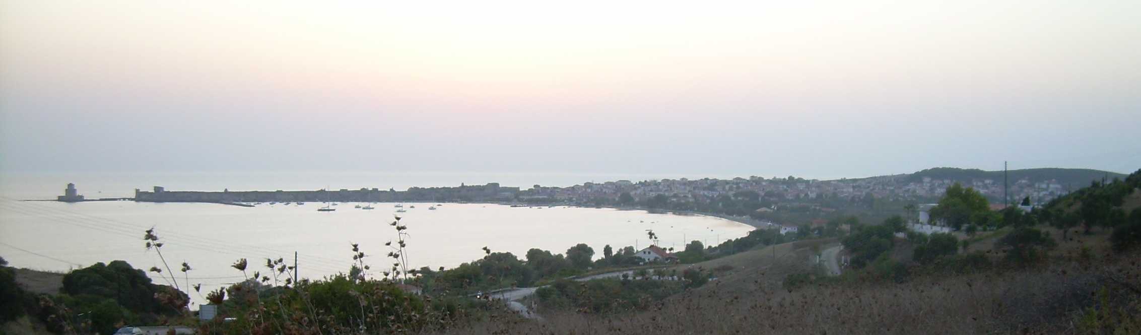 The town of Methoni, Peloponnese, Greece